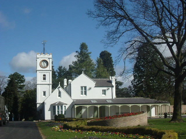 Park-keeper's offices and clock tower South Park, Darlington